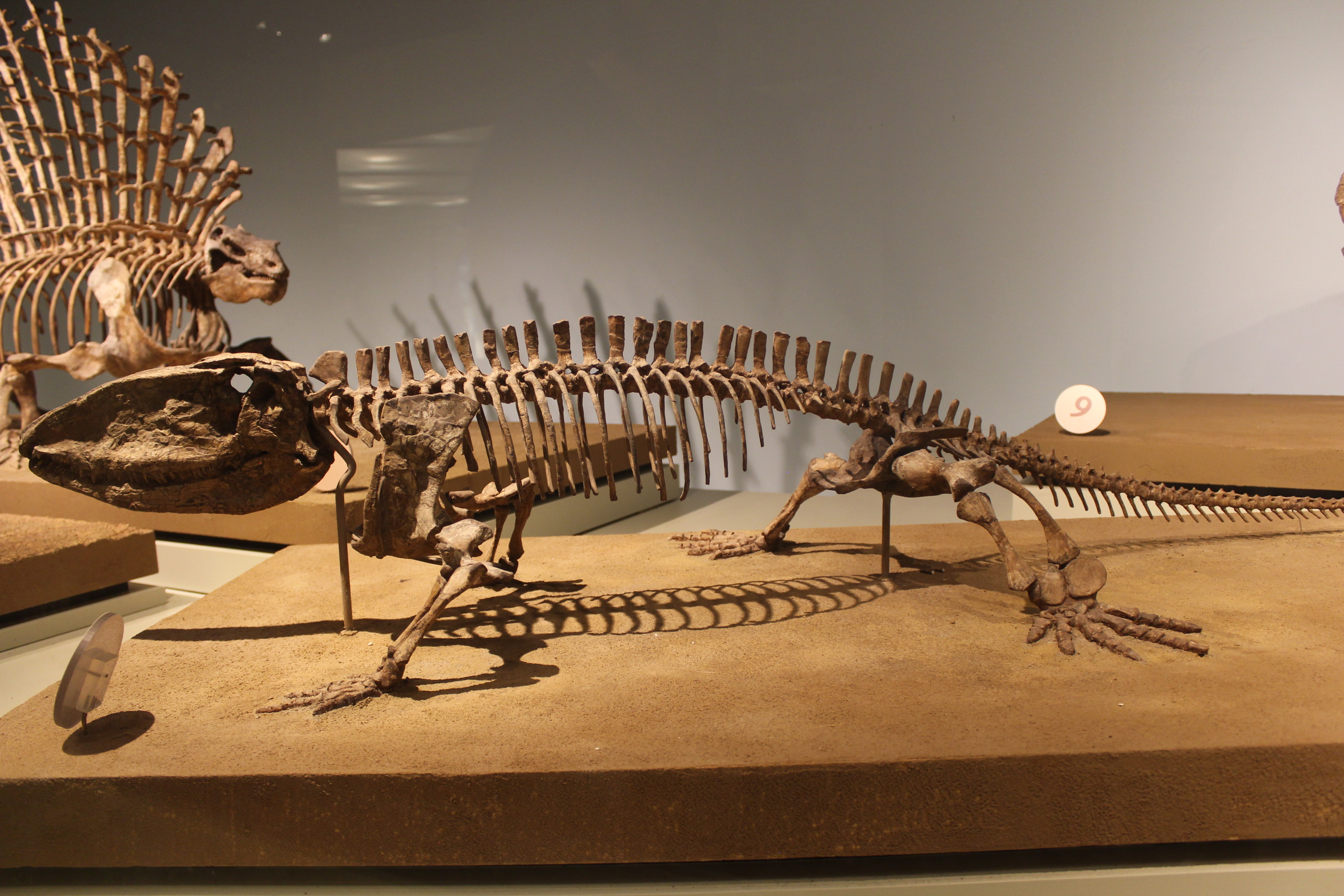 Ophiacodon skeletal mount on display at the Field Museum of Natural History.